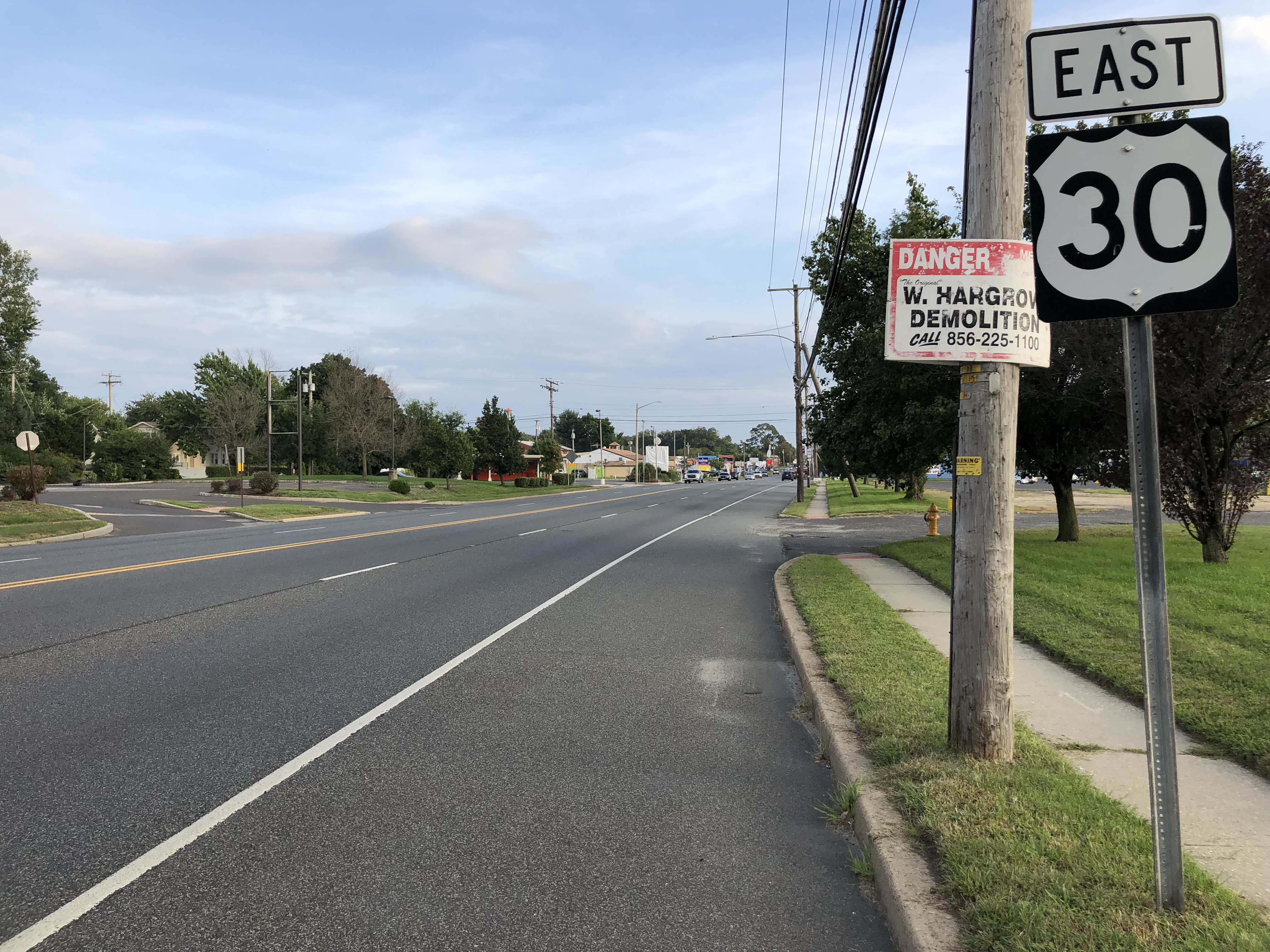 View east along U.S. Route 30 (White Horse Pike) just east of New Road in Stratford, Camden County, New Jersey